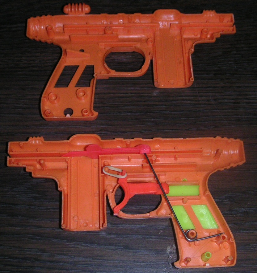 Jet Disc Tracer Gun model RFDS3816, interior view showing mechanism